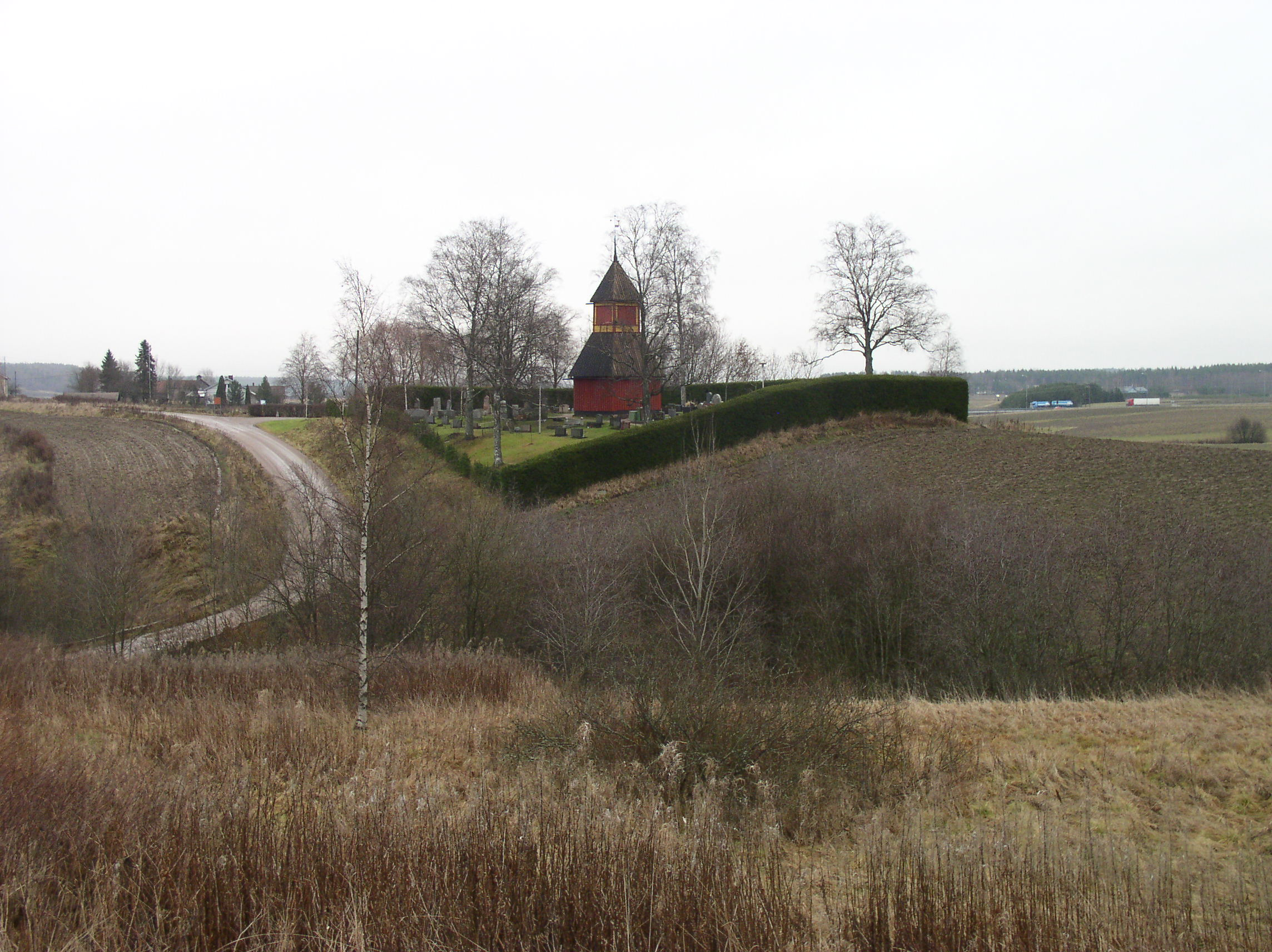 The old site of Uskela church, Salo, Finland. The church was destroyed by a land slide in 19th century. There is only a belfry in the graveyard now.